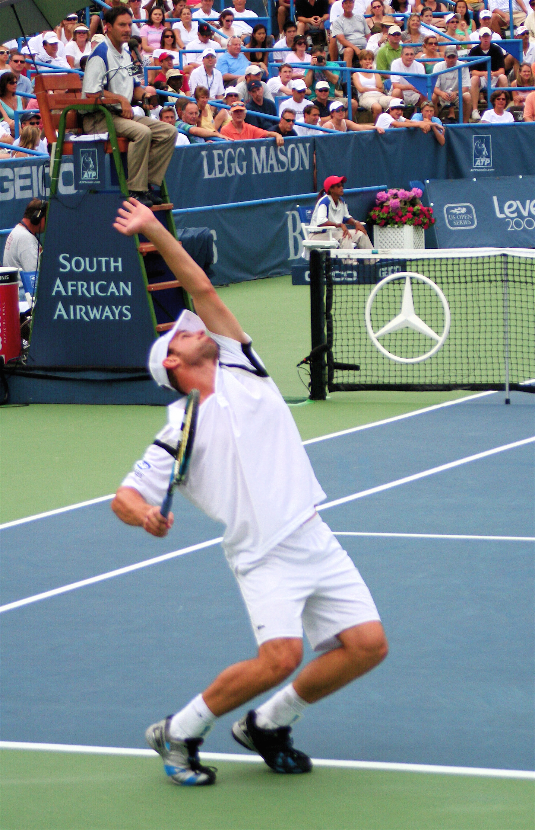 Andy Roddick at the Legg Mason tennis tournament Washington, DC August 2007